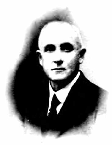 Charles Hall Grandgent, U.S. Passport Applications, 1924